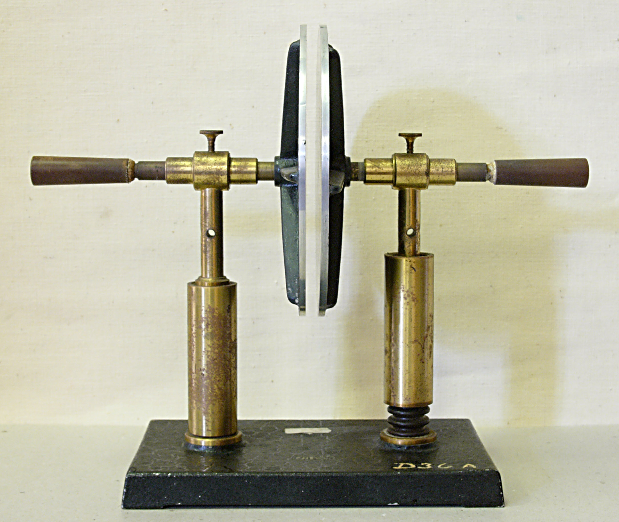 Parallel-plate capacitor, used in science education early in the 20th century, on display in the Schulhistorische Sammlung (School Historical Museum), Bremerhaven, Germany.